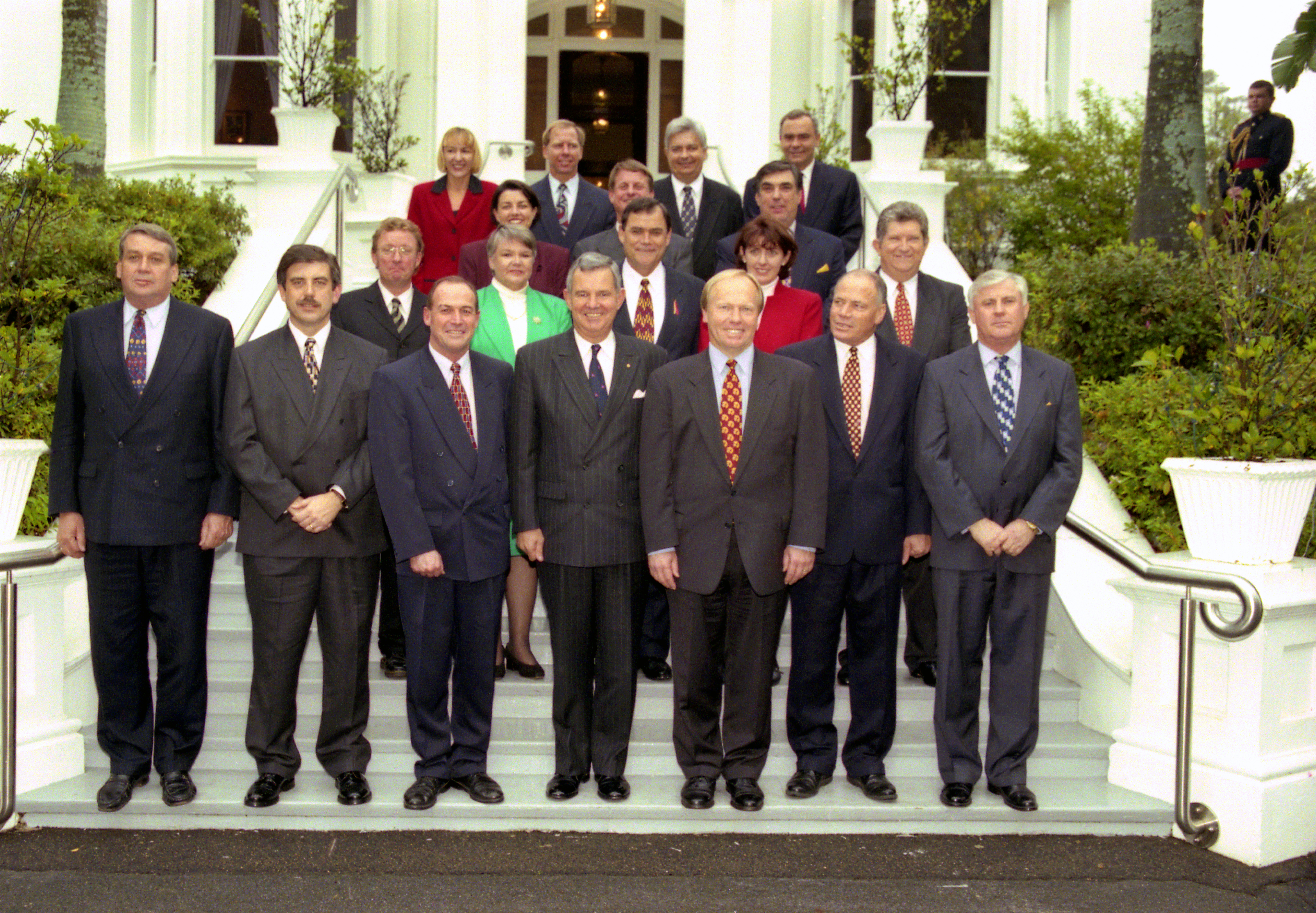 Major General Peter Arnison, Governor of Queensland, with Premier Peter Beattie and cabinet ministers of the 1st Beattie Ministry, 52nd Parliament, Fernberg the Governor's Residence, Brisbane, 29 June 1998. Merri Rose, Rod Welford, Henry Palaszczuk, Dean Wells Anna Bligh, Robert Schwarten, Tony McGrady Steve Bredhauer, Wendy Edmond, Matt Foley, Judy Spence, Tom Barton Paul Braddy, David Hamill, Jim Elder, Peter Arnison, Peter Beattie, Terry Mackenroth, Bob Gibbs